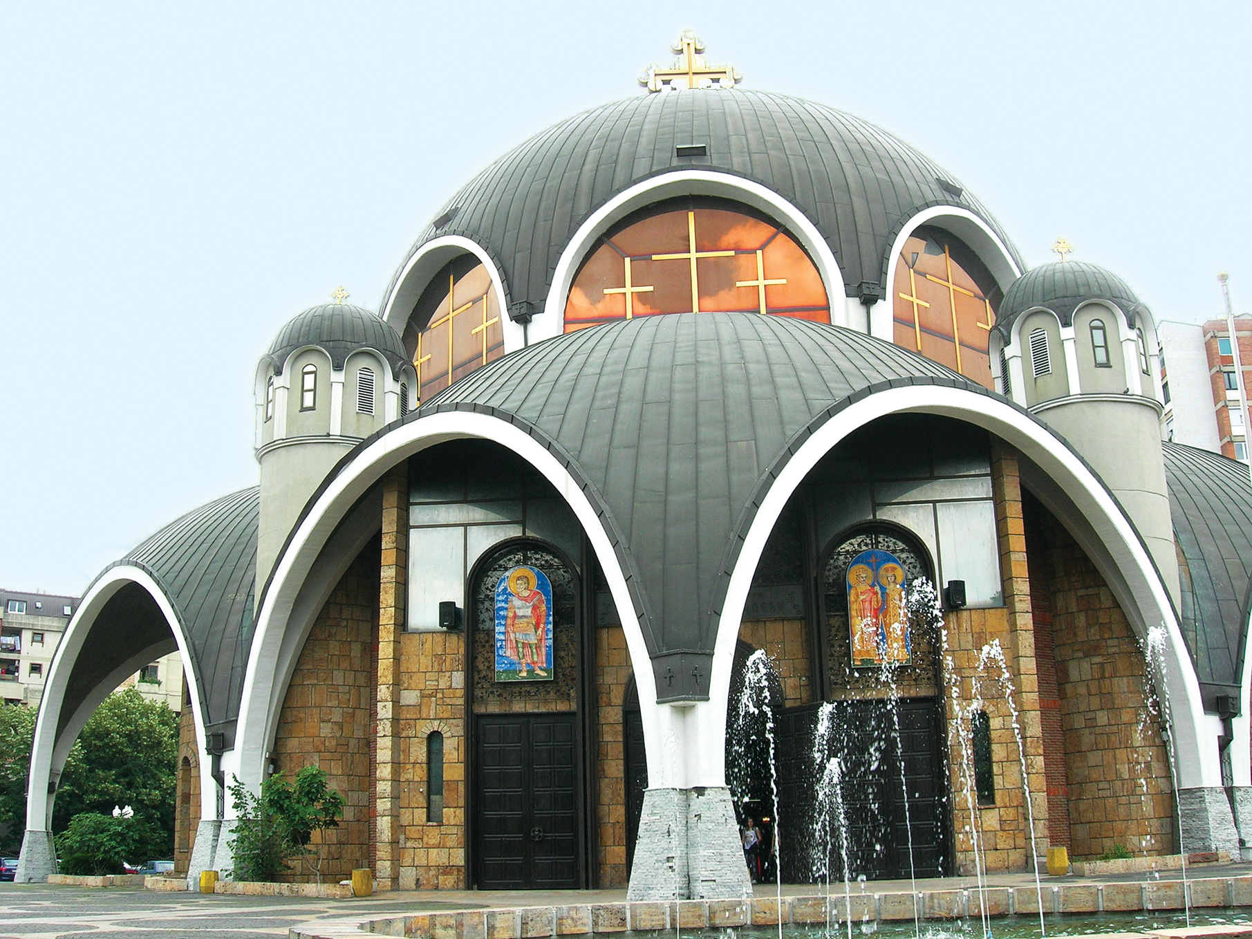 St. Clement Church in Skopje, Macedonia